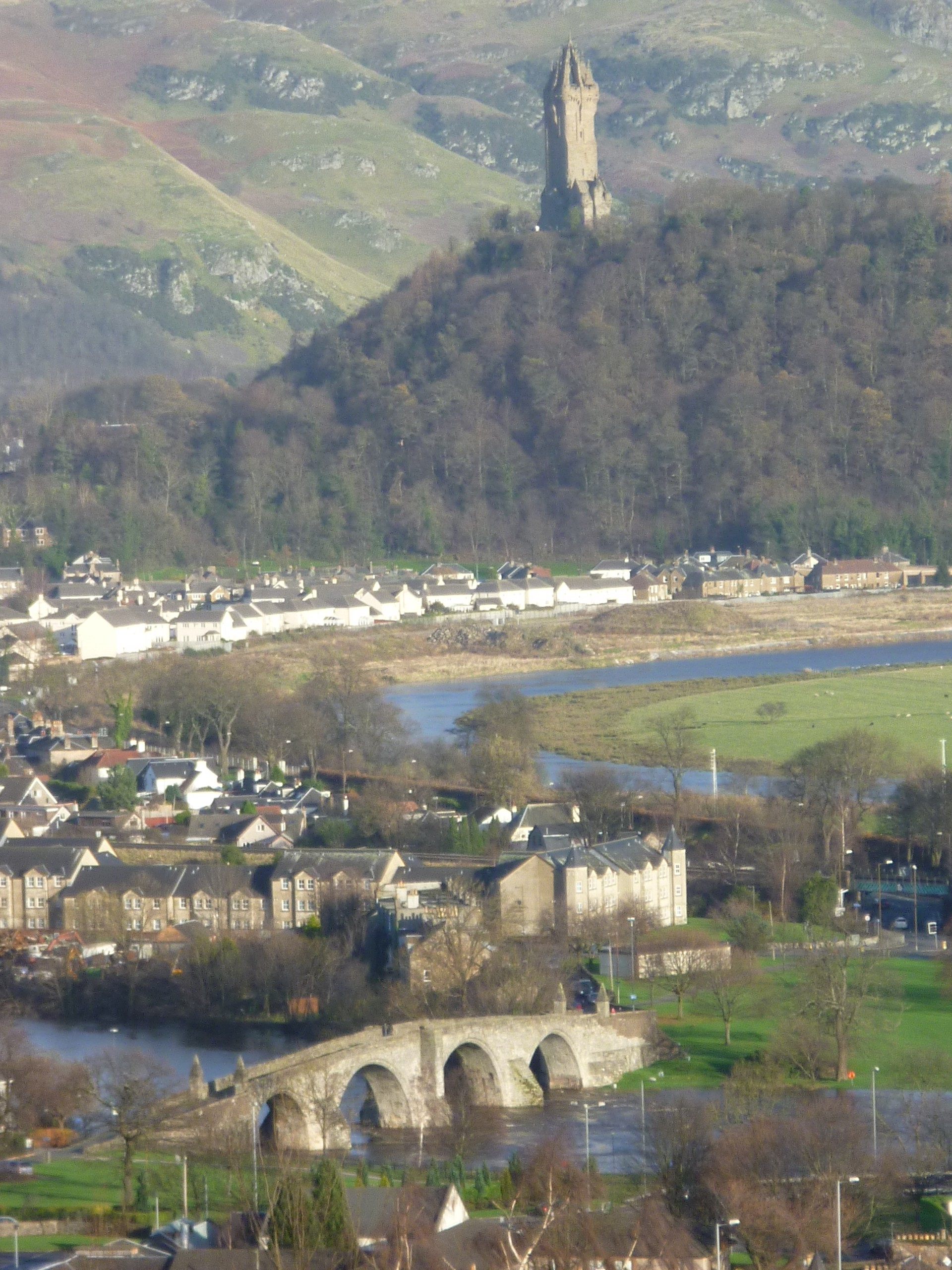 A view from the ramparts of Stirling Castle. The bridge which featured in the battle of 1297 was about 60 metres upstream from the mediaeval bridge seen here.